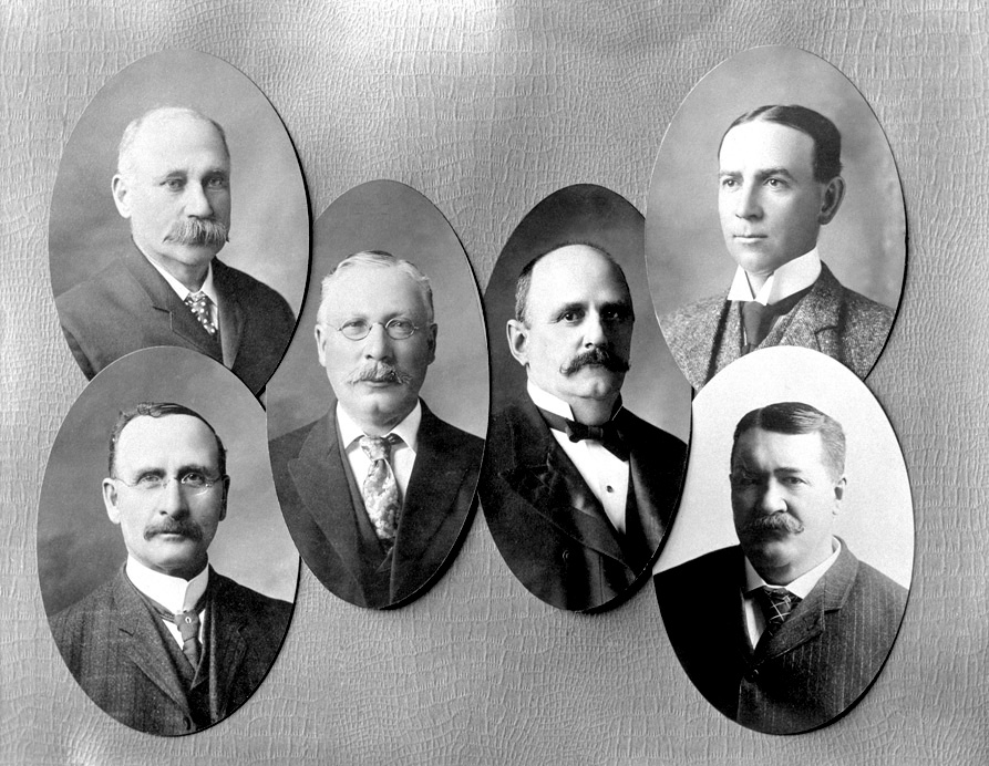 Alberta's first cabinet. Top left: William Thomas Finlay, Minister of Agriculture. Bottom left: Henry William Cushing, Minister of Public Works. Centre left: Alexander Cameron Rutherford, Premier. Centre right: George Bulyea, Lieutenant-Governor. Top right: Charles Wilson Cross, Attorney-General. Bottom right: L. George DeVeber, Minister without Portfolio.